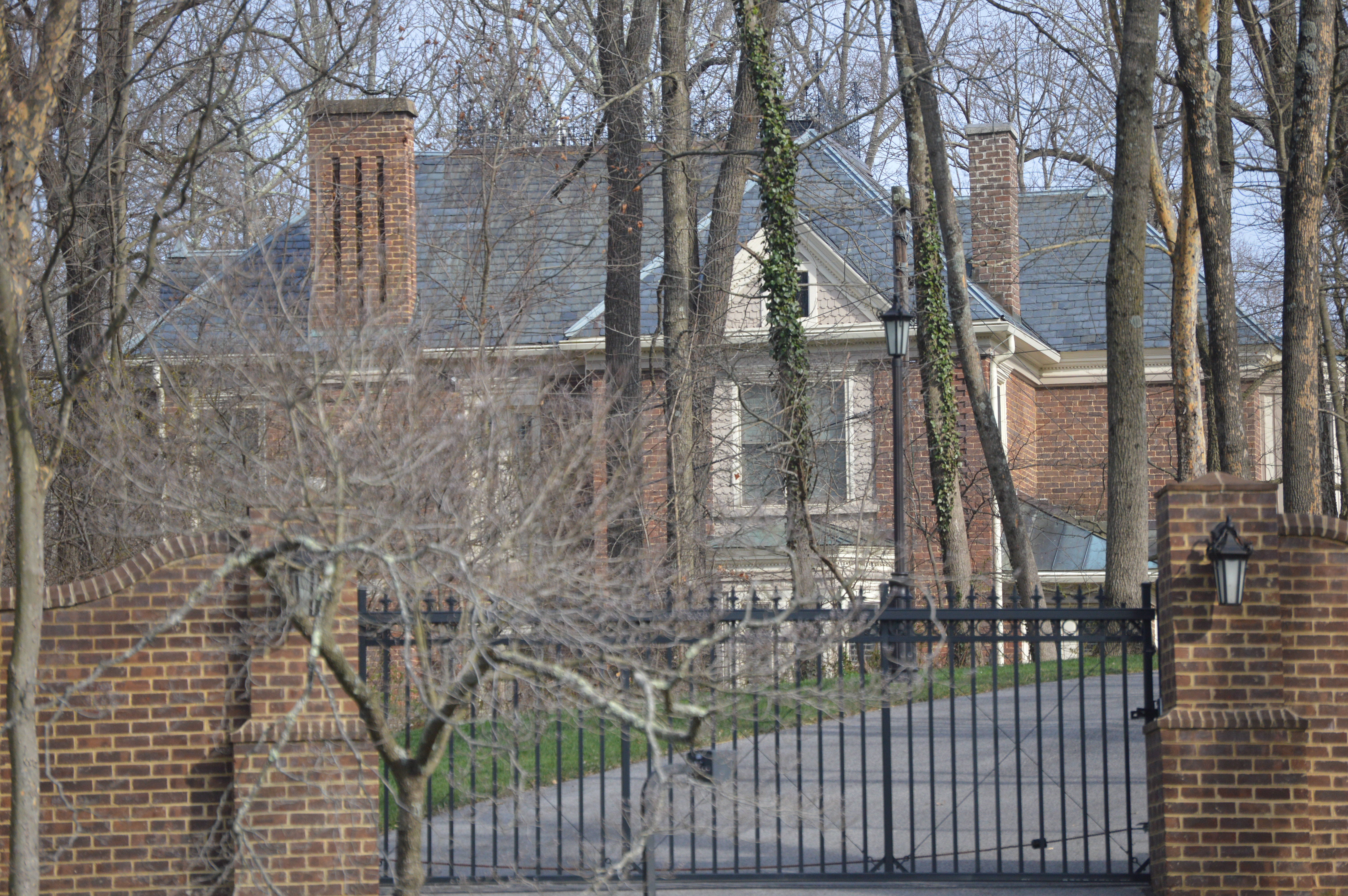 Driveway view of Halwyck, located at 915 Tyler Avenue (State Route 177) in Radford, Virginia, United States. Built in 1892, it is listed on the National Register of Historic Places.